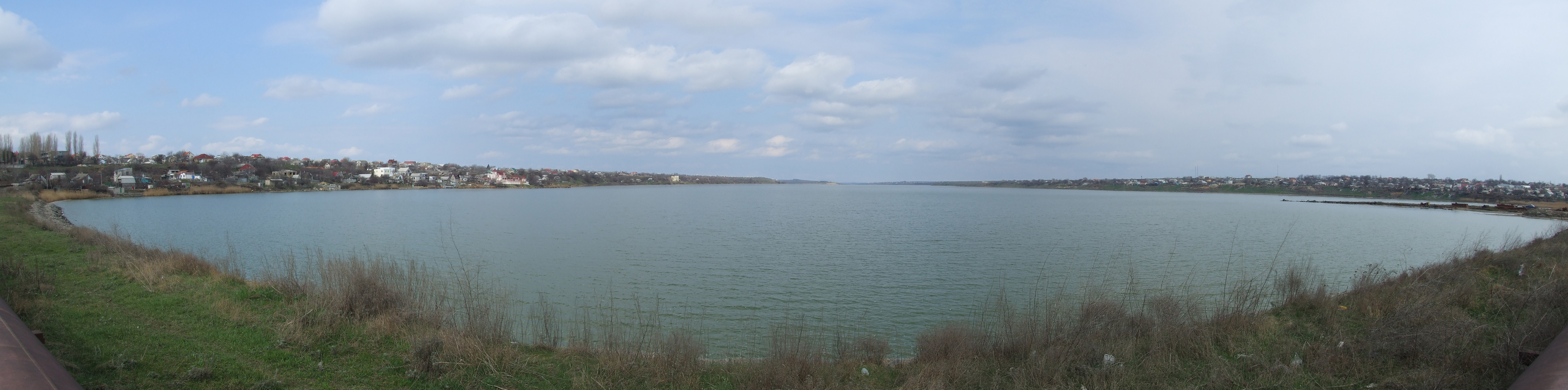 The panorama of Velykyi Adzhalykskyi liman, Kominternivskyi Raion, Odessa Oblast, Ukraine